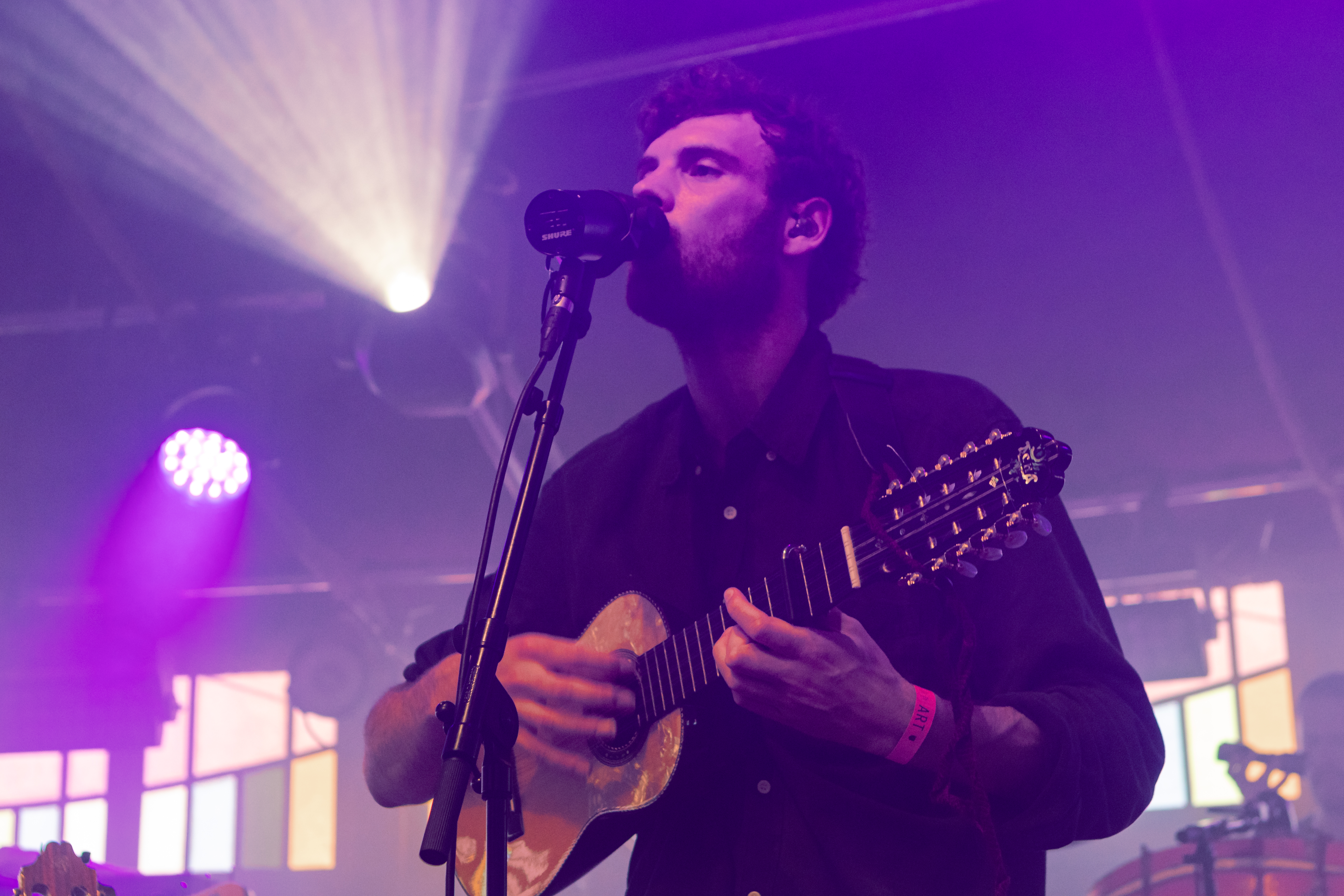 Blanco White in the Spiegeltent at Haldern Pop Festival 2019.